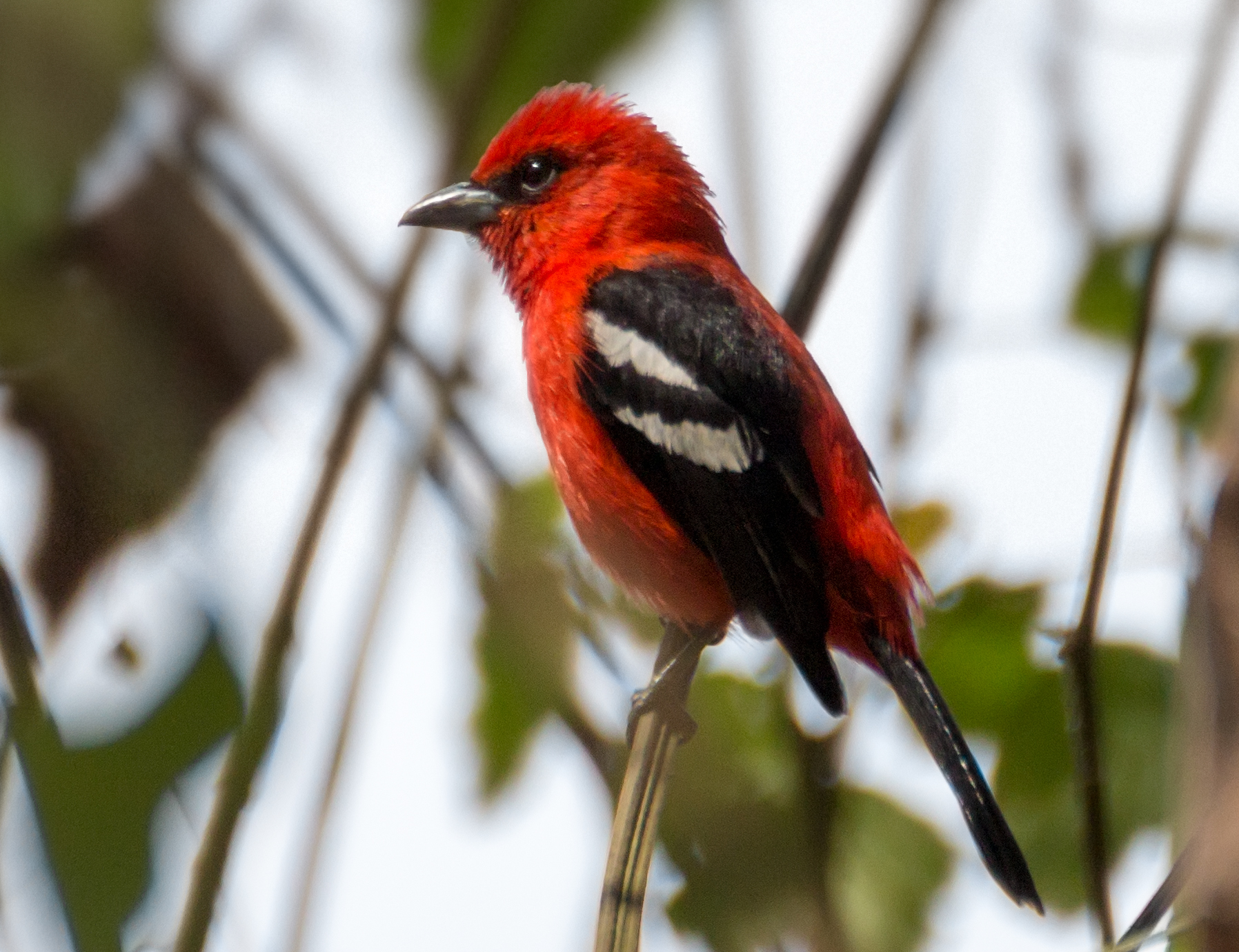 A male White-winged Tanager in Waraira Repano National Park, Venezuela.